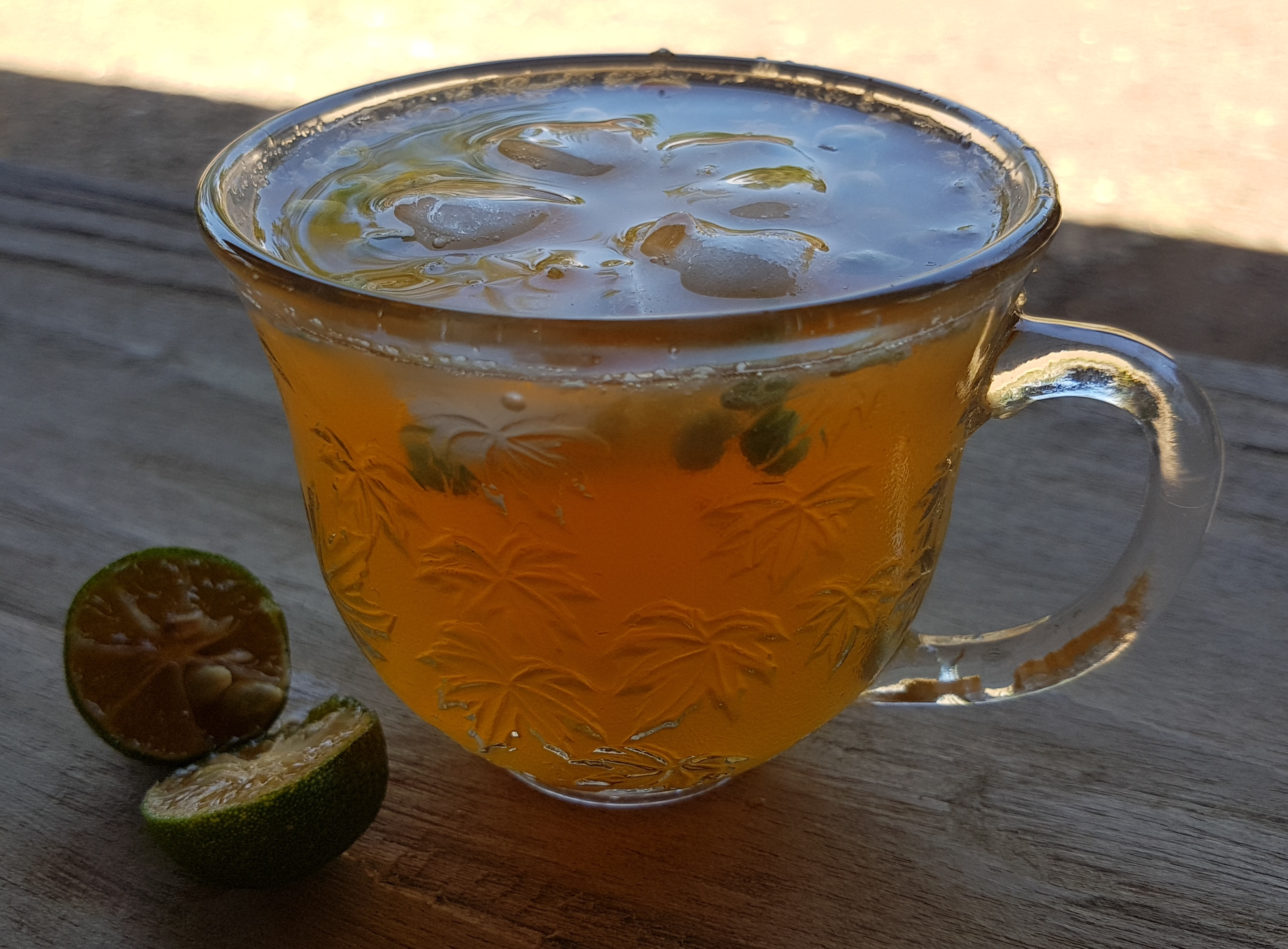 Calamansi juice (Filipino lemonade), sweetened with brown sugar